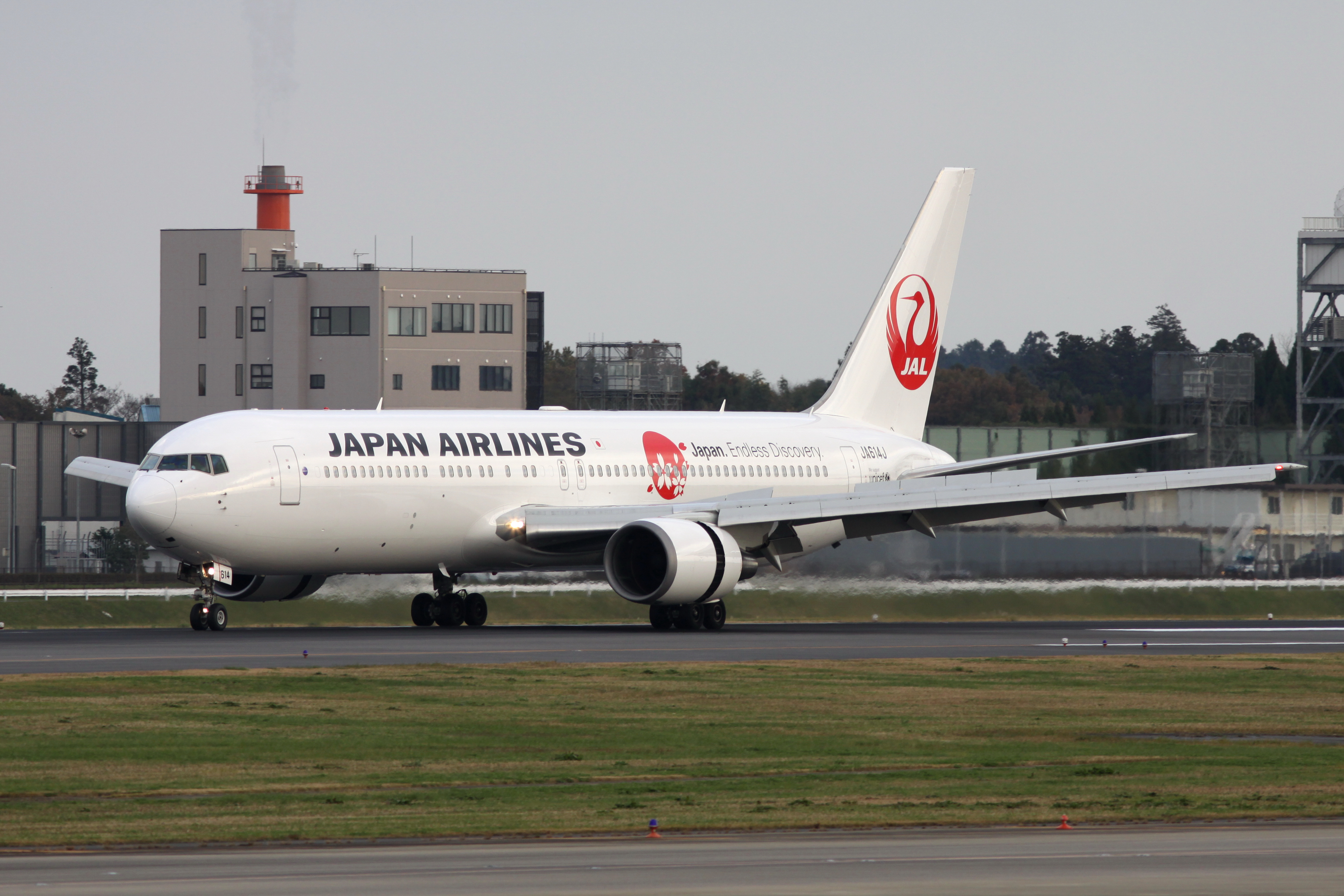 Narita International Airport, Boeing 767-346/ER, c/n:33851, Japan Airlines